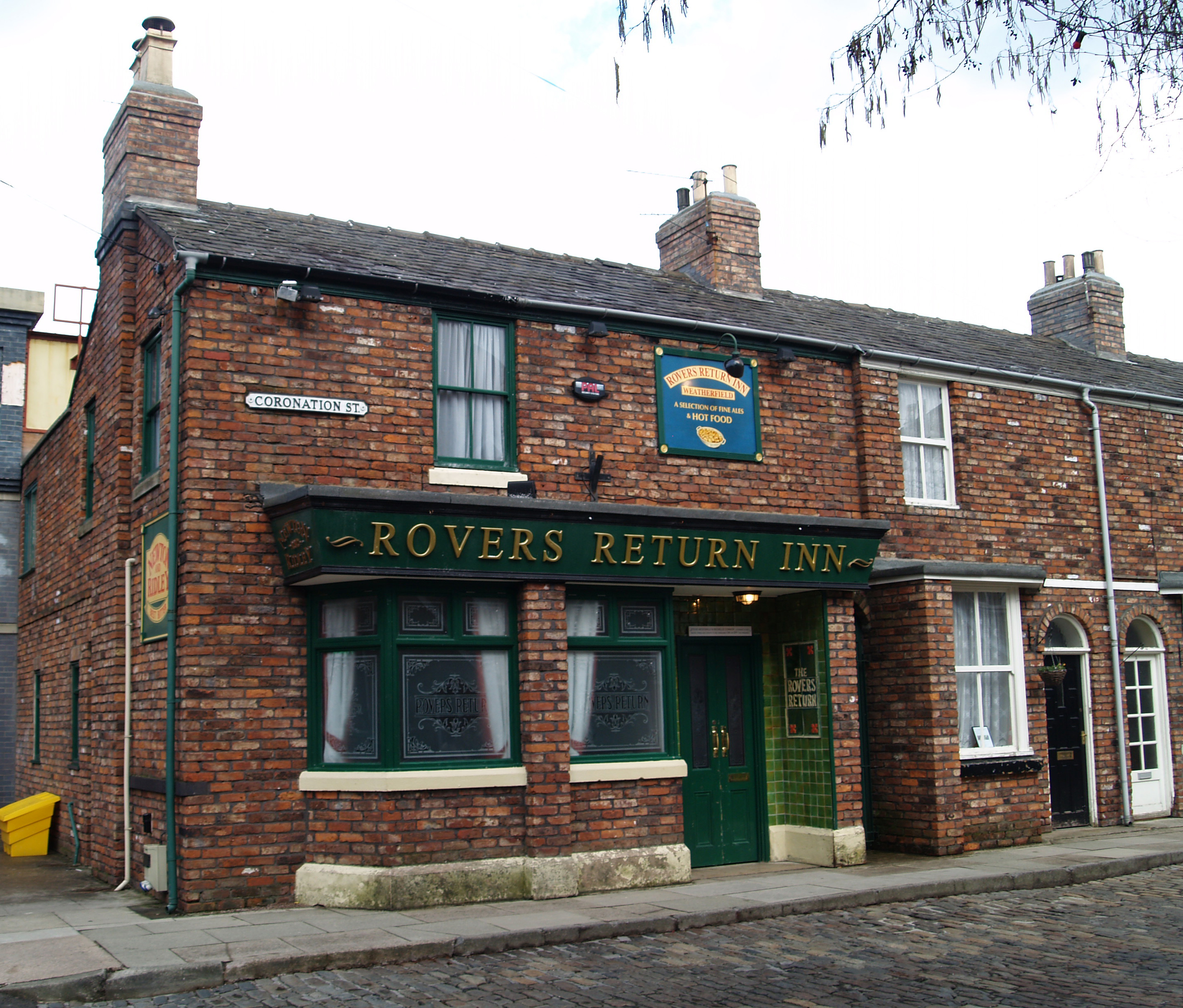 The Rovers Return Inn on Coronation Street taken at the Quay Street set in February 2015.